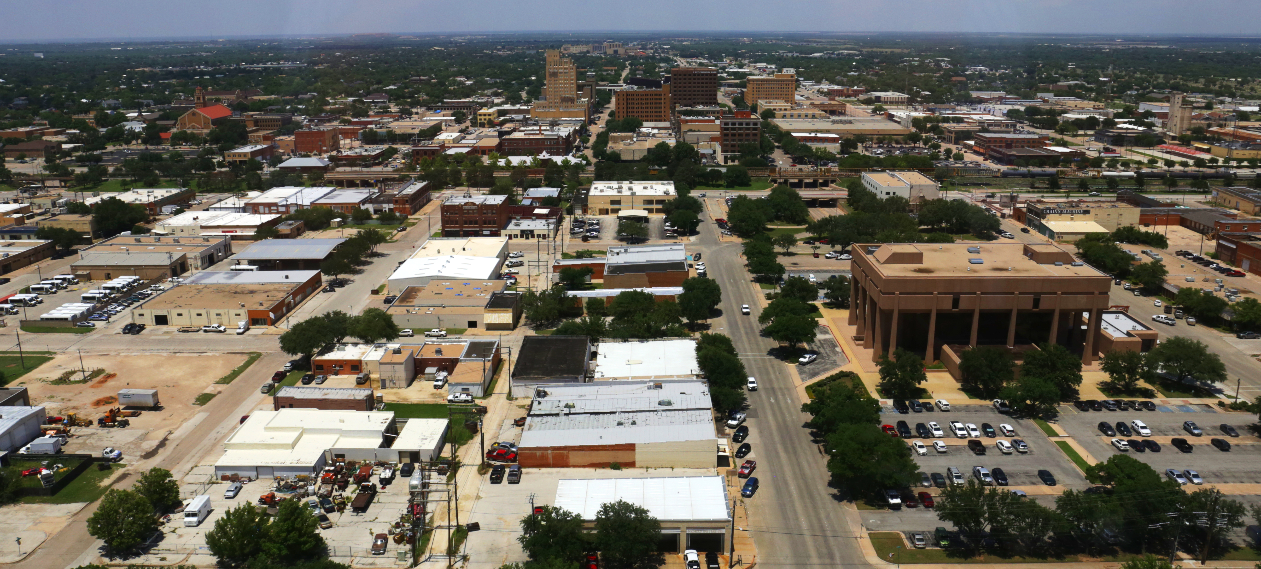 A shot of downtown Abilene.